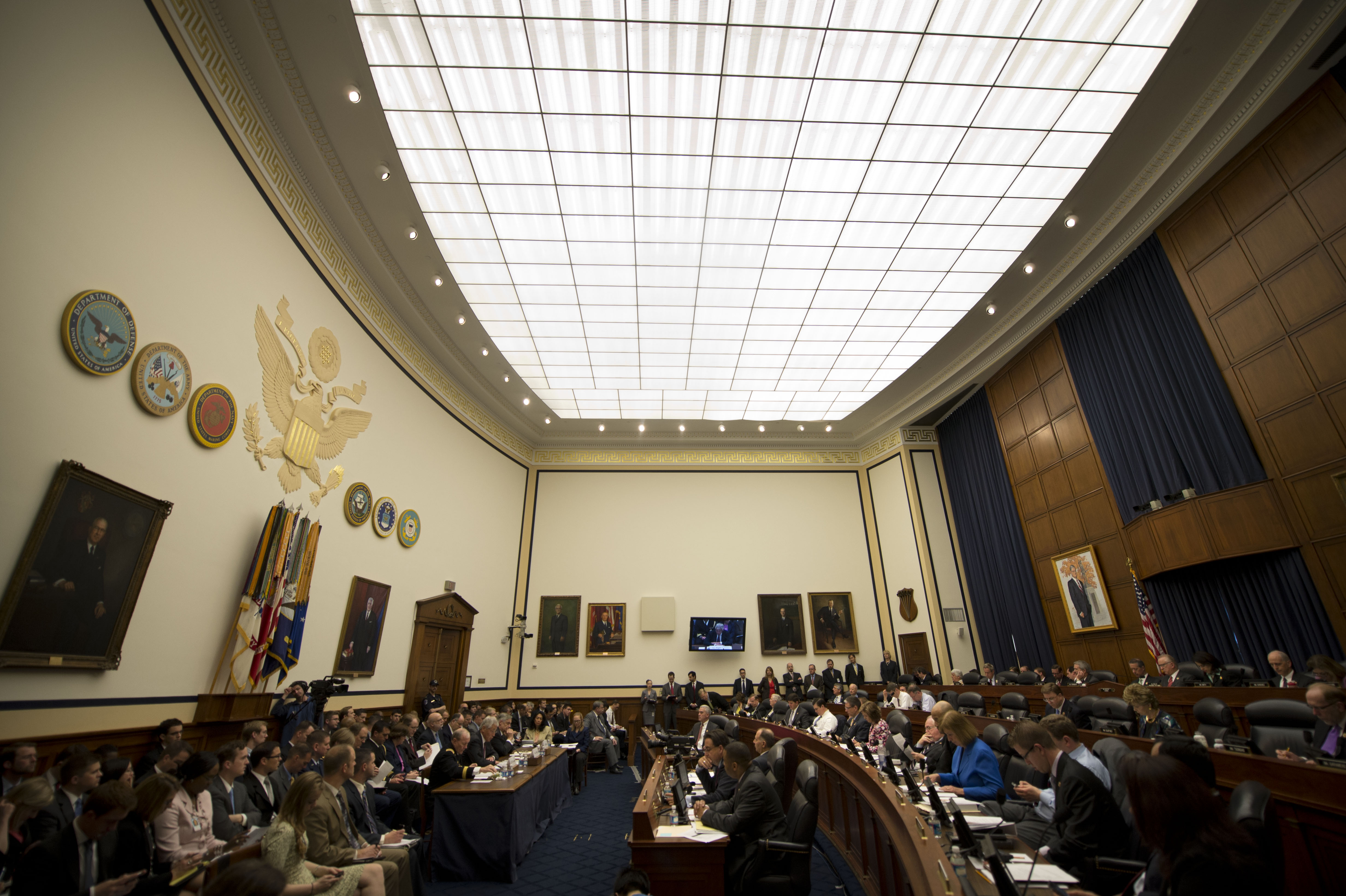 Secretary of Defense, Chuck Hagel testifies before the House Armed Services Committee on the fiscal year 2014 National Defense Authorization Budget Request at the Rayburn House Office Building in Washington D.C., April 11, 2013. Chairman of the Joint Chiefs of Staff Gen. Martin E. Dempsey and Under Secretary of Defense-Comptroller Robert Hale joined Hagel for the testimony. (DoD photo by Erin A. Kirk-Cuomo)(Released)